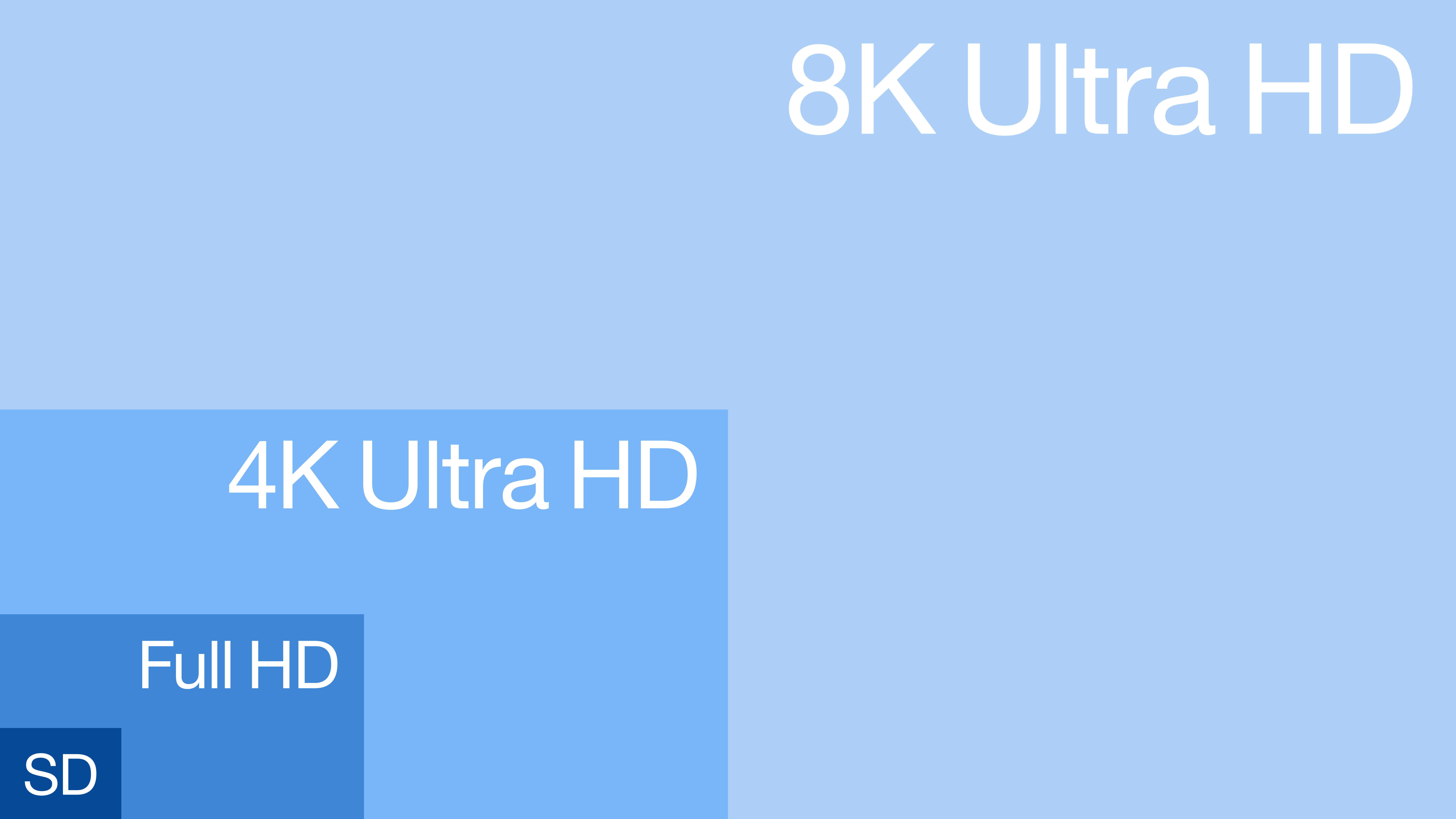 SD, Full HD, 4K Ultra HD and 8K Ultra HD